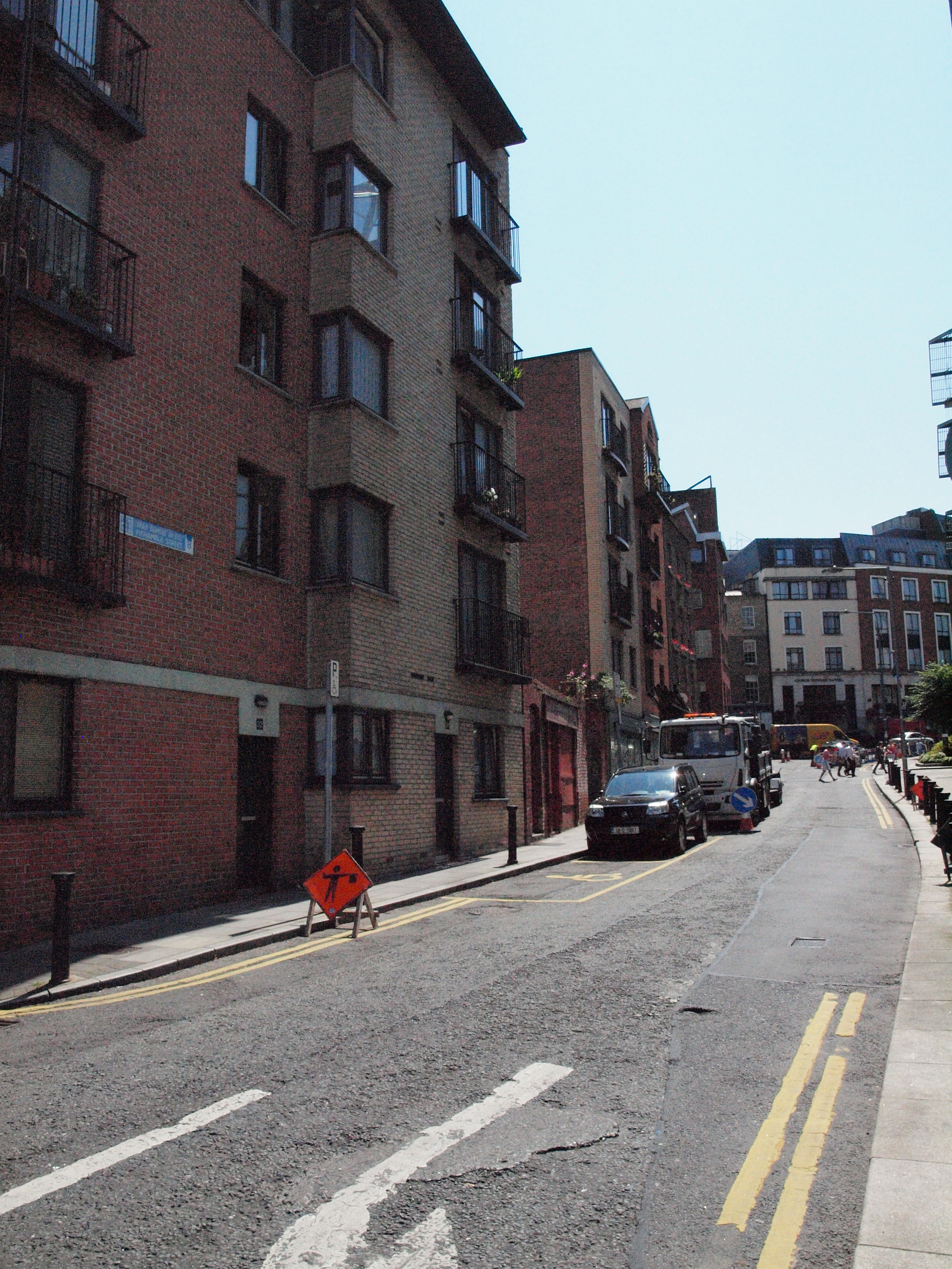 Fishamble Street